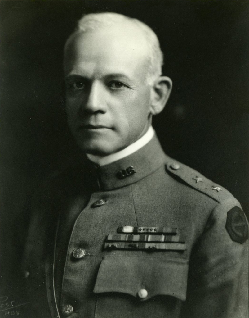 Maj. Gen. Charles T. Menoher commanded the US Army, Pacific (Hawaiian Department) from 1924-1925. The son of a Civil War veteran, he graduated from the US Military Academy in 1886 with a commission in the Artillery. He later graduated from the Army War College and was selected for the original General Staff Corps where he served from 1903-1907.